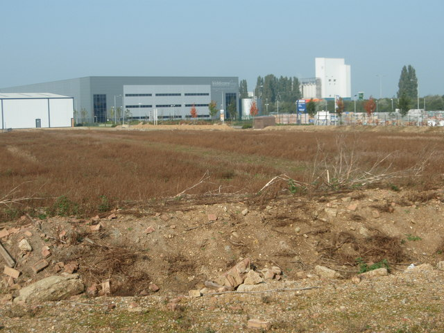 Kiddicare Warehouse One of the bigger warehouses on Club Way. Kiddicare as you might surmise supplies goods for the baby and toddler market.